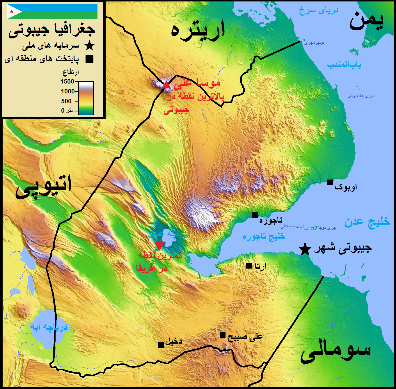 Map of Djibouti in Persian